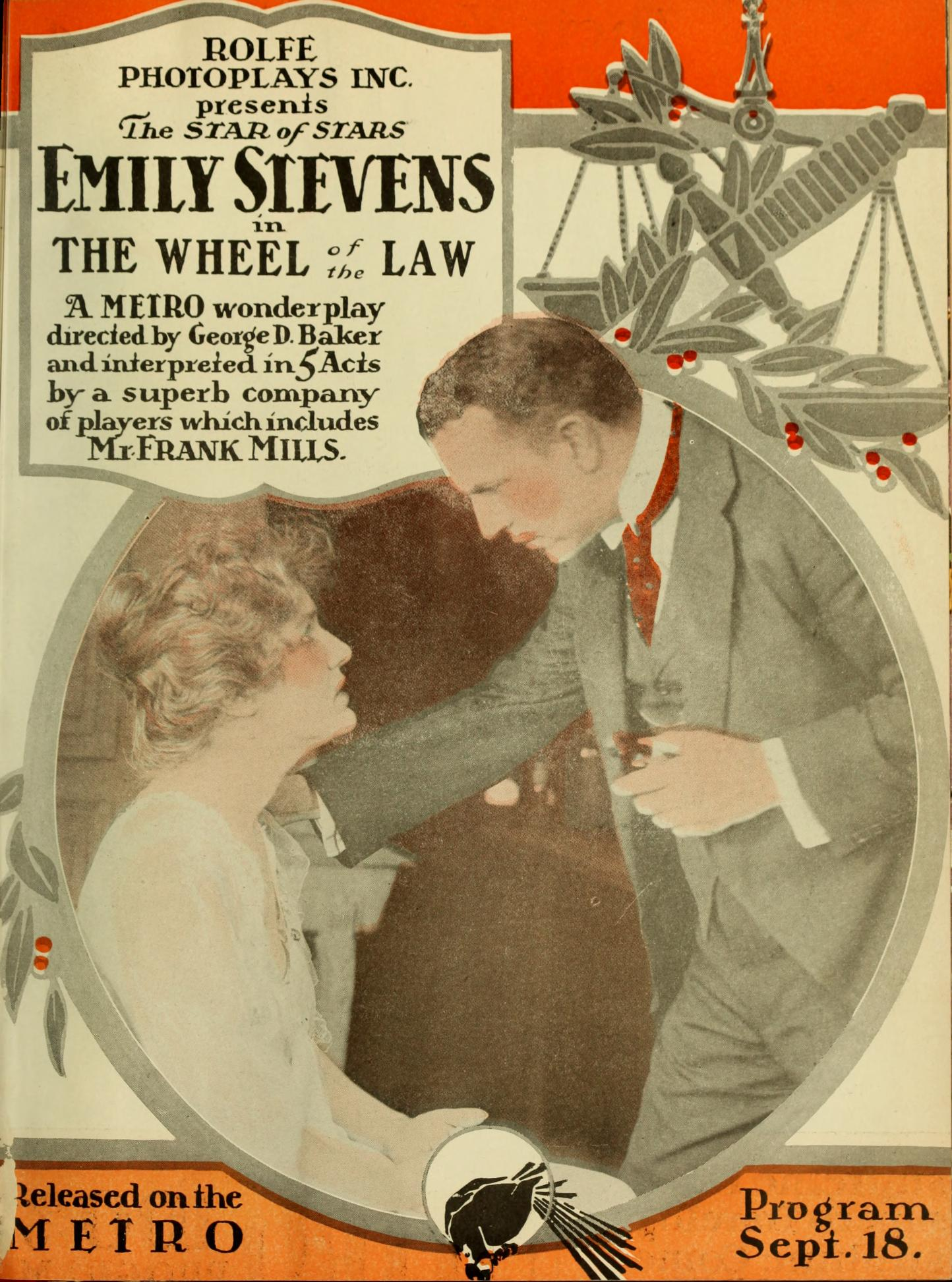 Advertisement in Moving Picture World for The Wheel of the Law (1916) with Emily Stevens and Frank Mills (1870–1921).